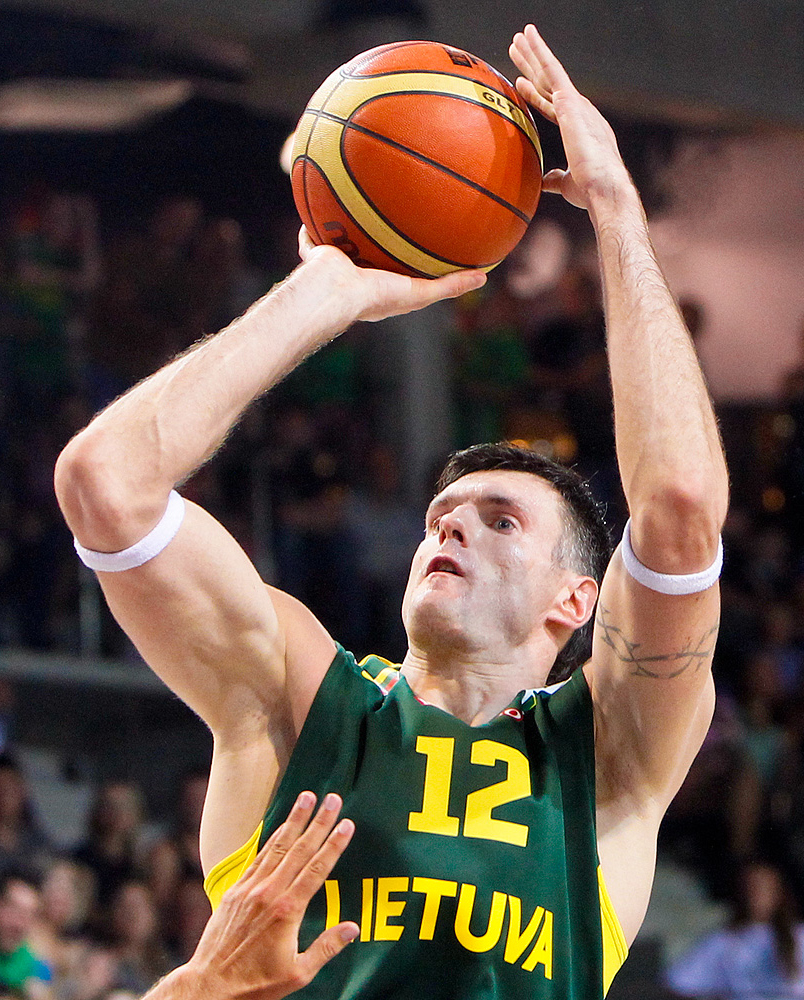 Lithuanian basketball player Krzysztof Lawrynowicz